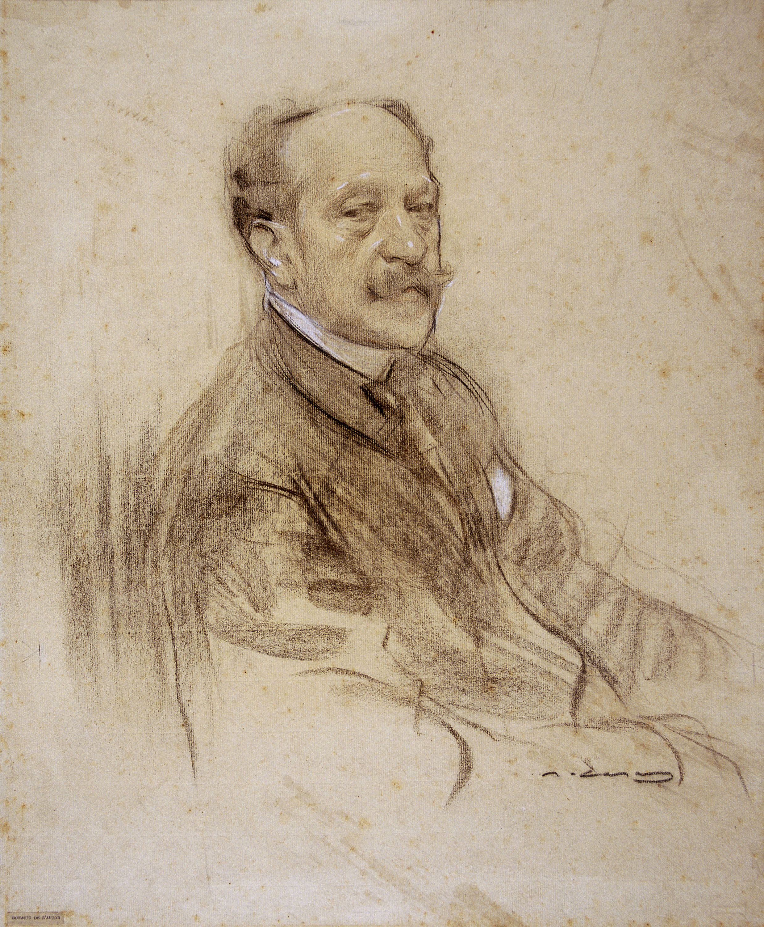 Portrait by Ramon Casas conserved at MNAC in Barcelona.